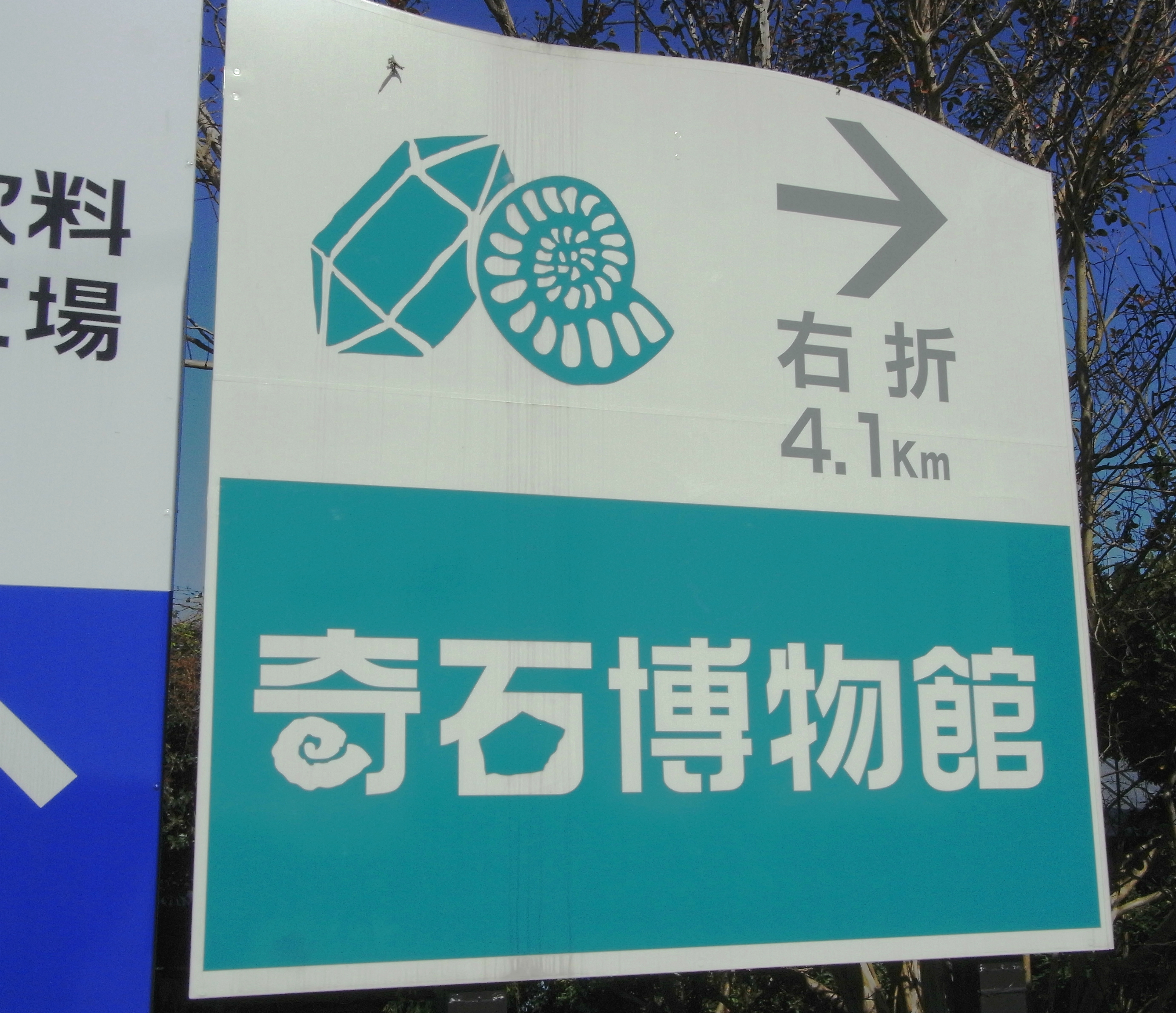 The billboard of kiseki Museum